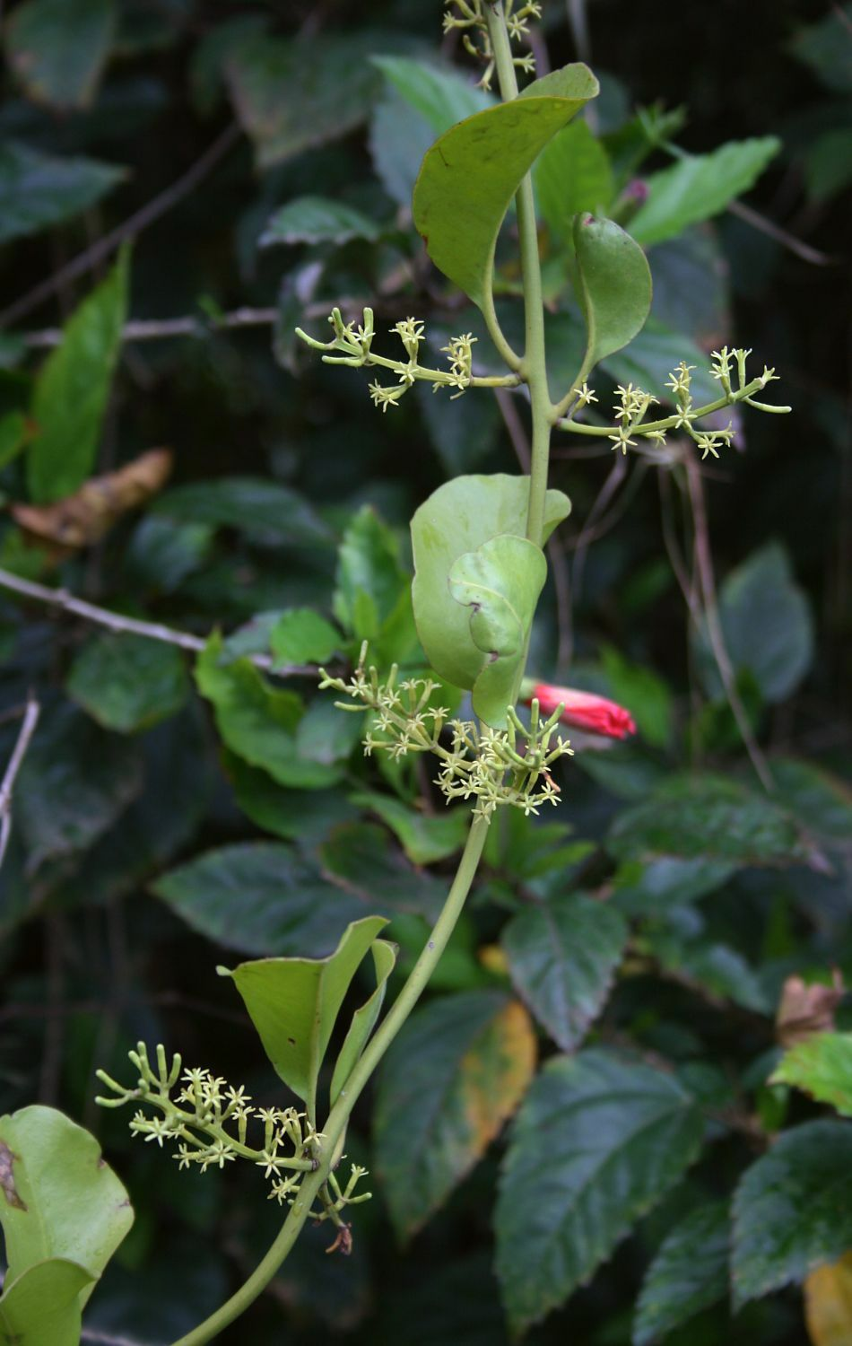 Struthanthus orbicularis, Riemenblumengewächse (Loranthaceae) - Costa Rica: Prov. Cartago, Orosi